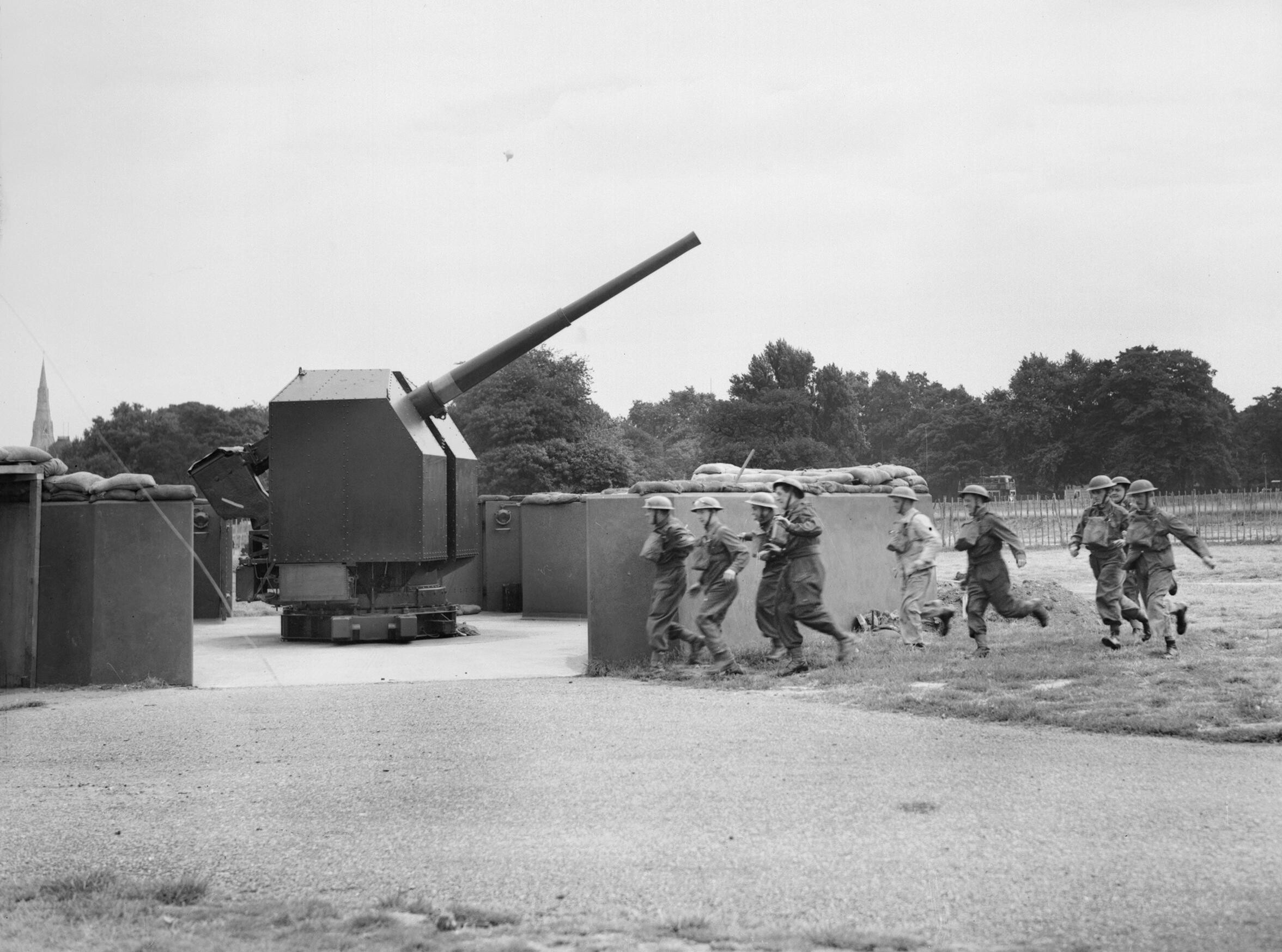 4.5-inch anti-aircraft gun crew take their positions at Clapham Common in London.